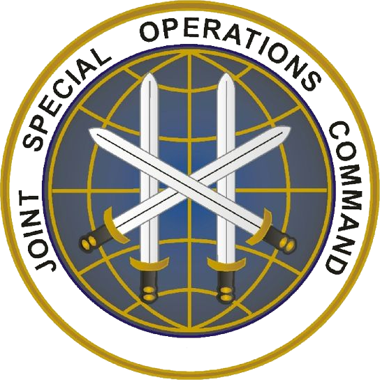 United States Joint Special Operations Command (JSOC) emblem